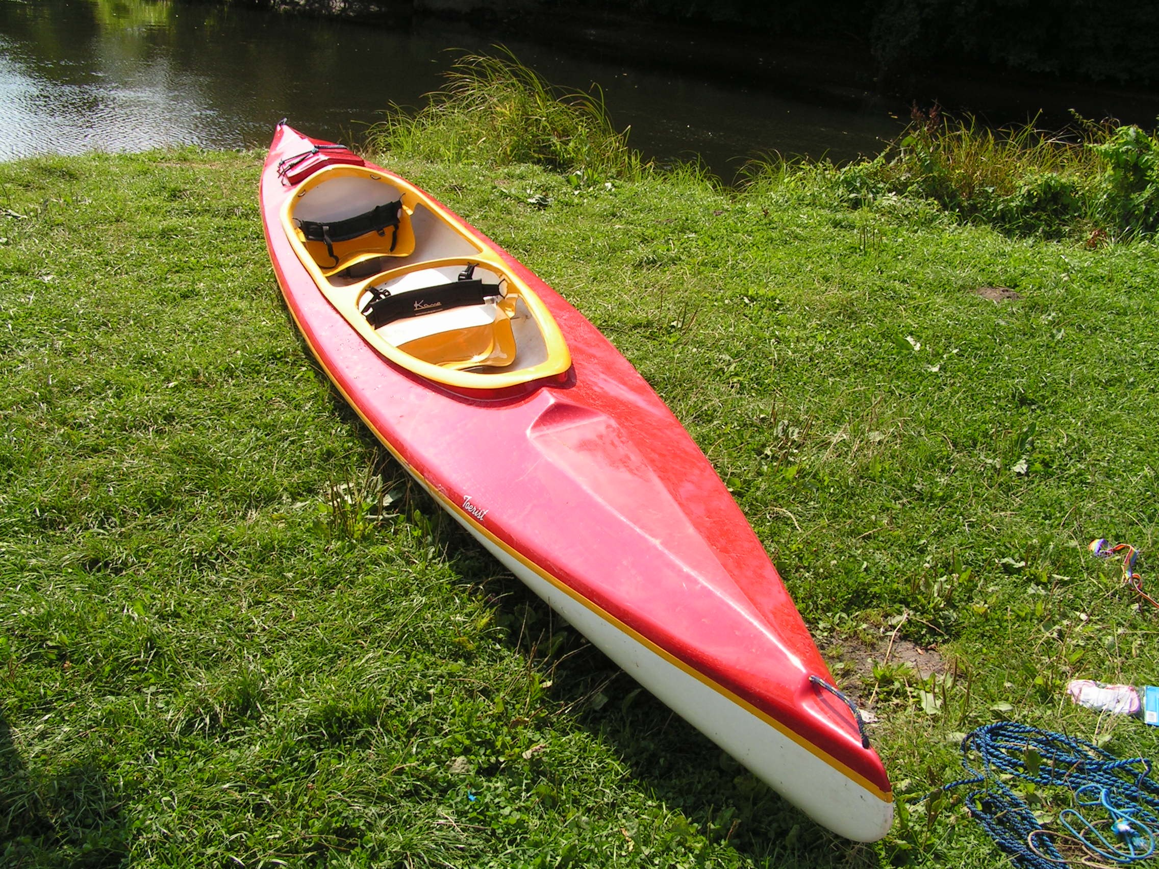 Foto Kayak in polish river Wda